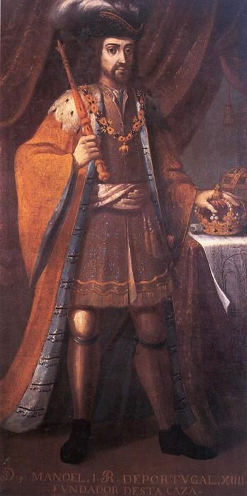 King Manuel I of Portugal